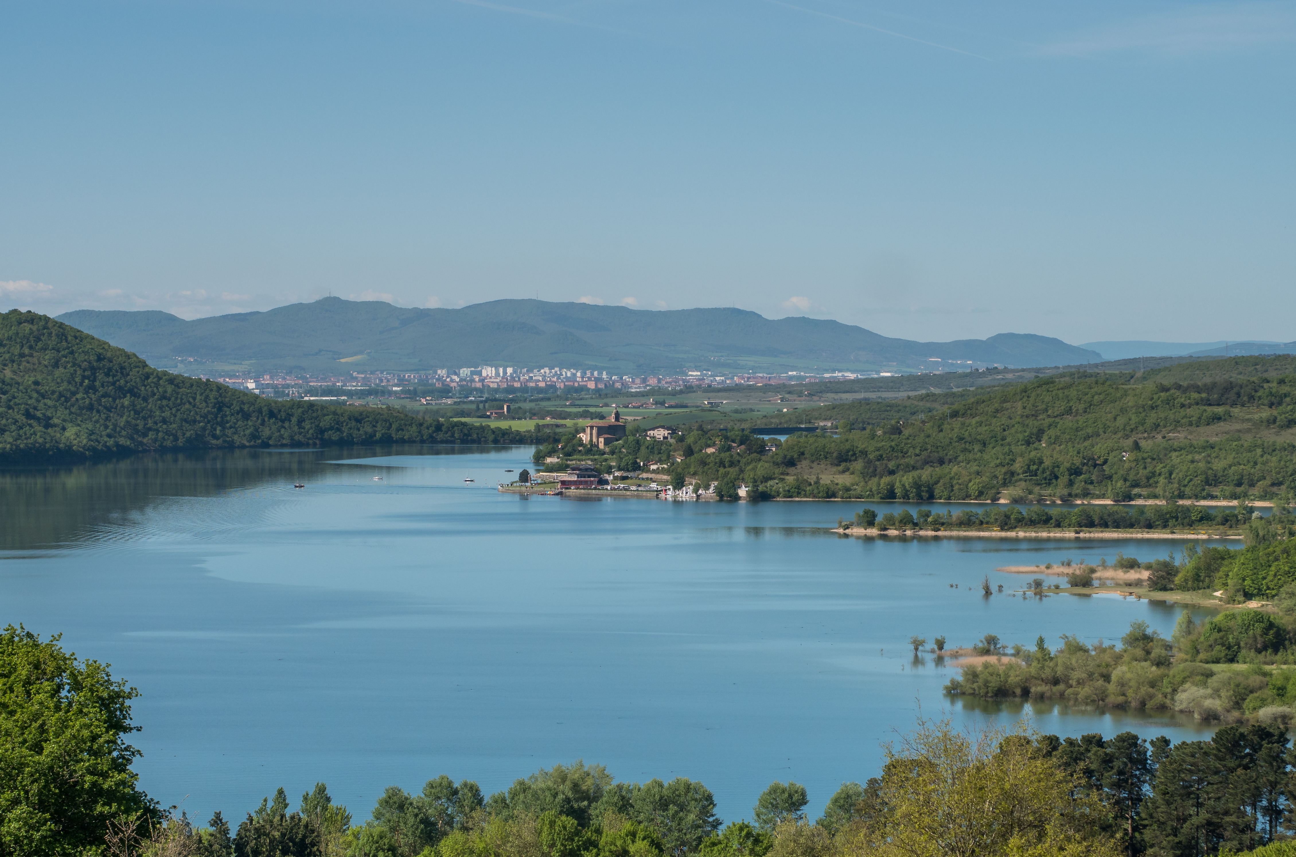 Ullíbarri-Gamboa reservoir, viewed from the Elgea mountain range. In the background Vitoria-Gasteiz. Álava, Basque Country, Spain